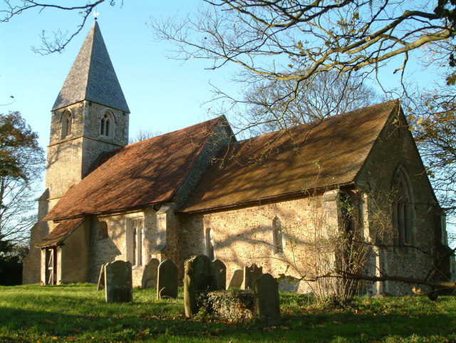 Photograph of St Mary's Church, Chickney